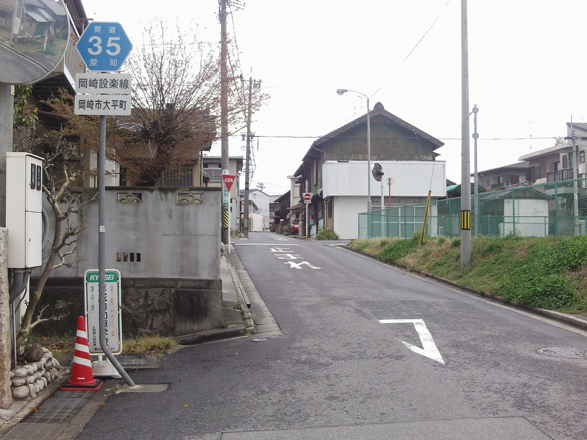 Aichi prefectural road No.35 in Ohiracho, Okazaki, Aichi.